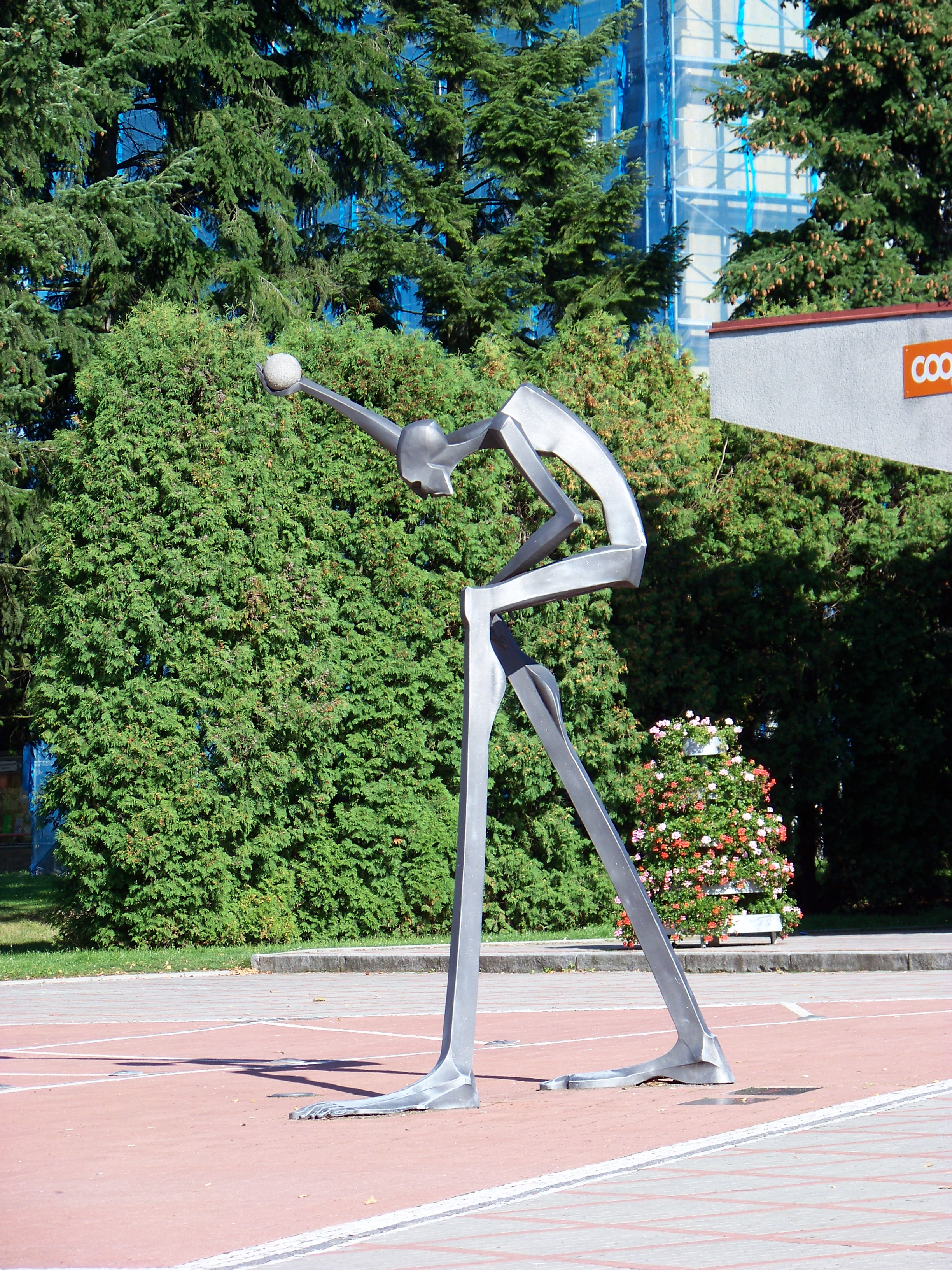 Sezimovo Ústí, Tábor District, South Bohemian Region, the Czech Republic. Tomáš Baťa Square, a sculpture with sundials and a Coop shop. - Google Maps - Google Earth